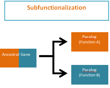 Example of Subfunctionalization